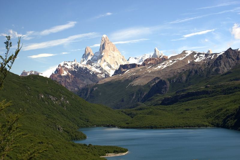 Cerro Chaltén (Cerro Fitzroy), Patagonia